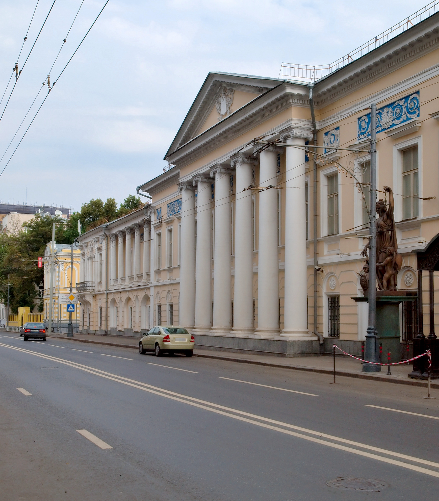 Prechistenka Street, Moscow.